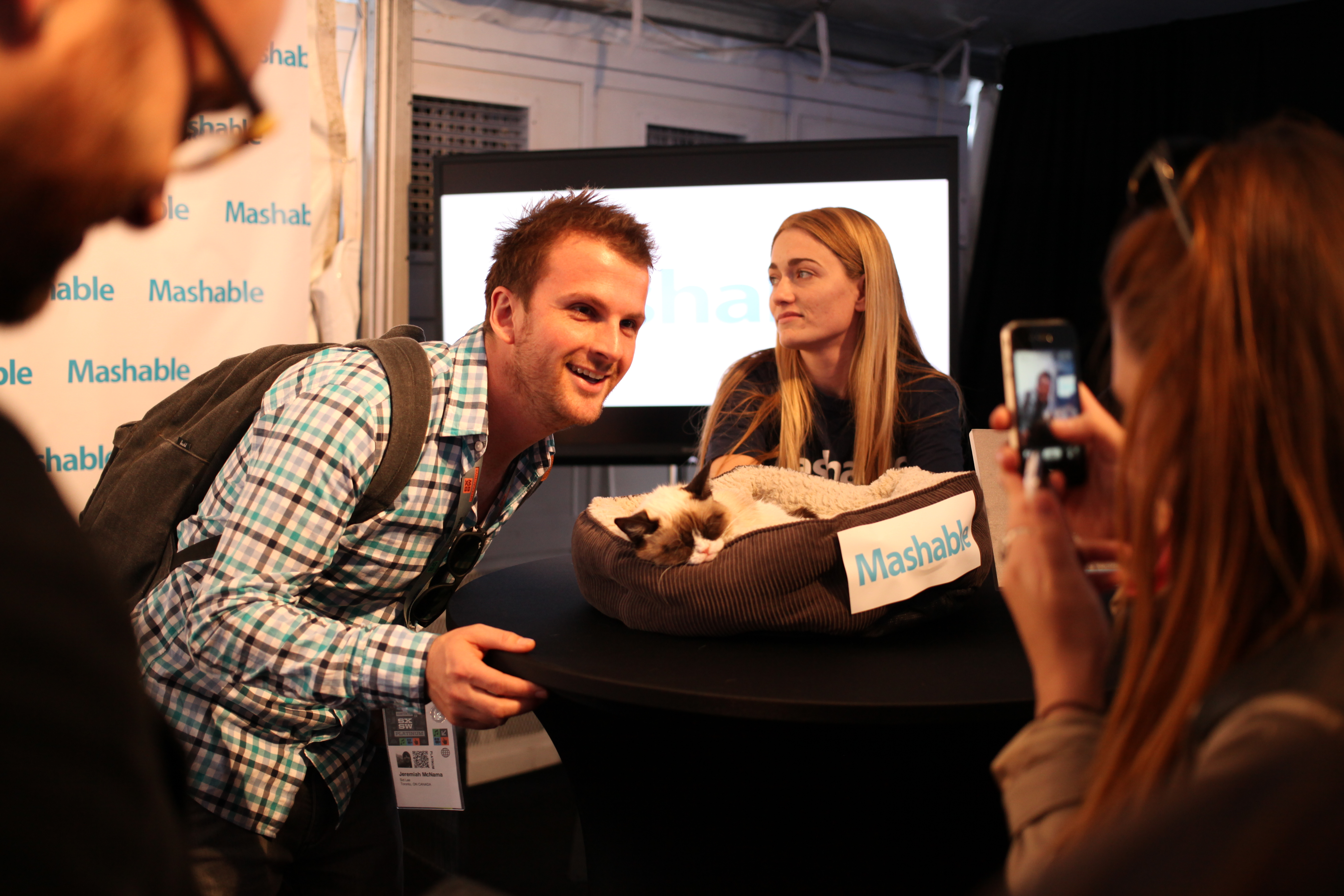 Grumpy Cat at SXSW